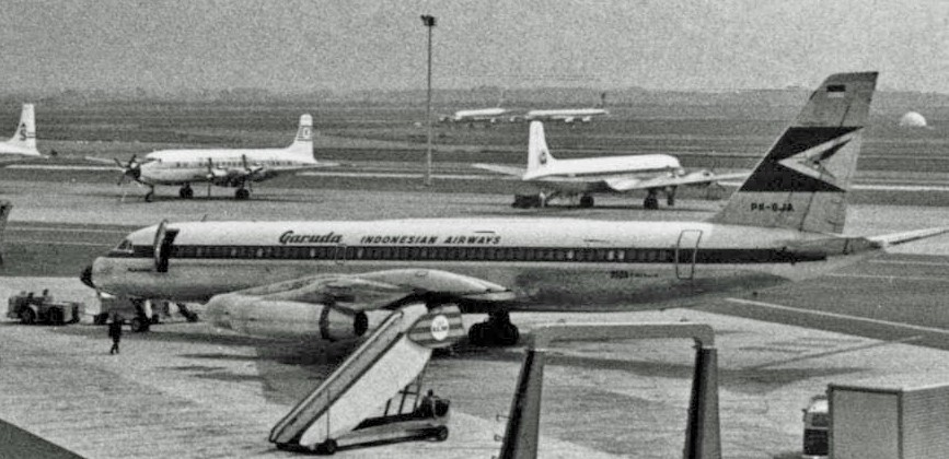 Convair 990 Coronada PK-GJA of Garuda Indonesian at Amsterdam Schiphol in 1967